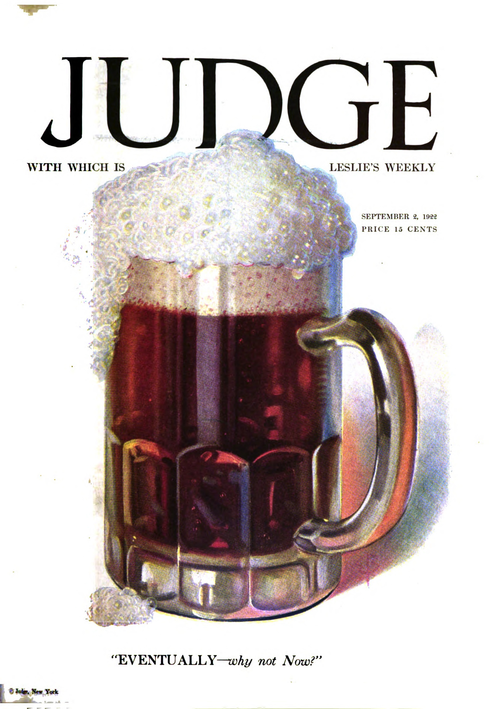 Judge Magazine Cover (2 Sep 1922)